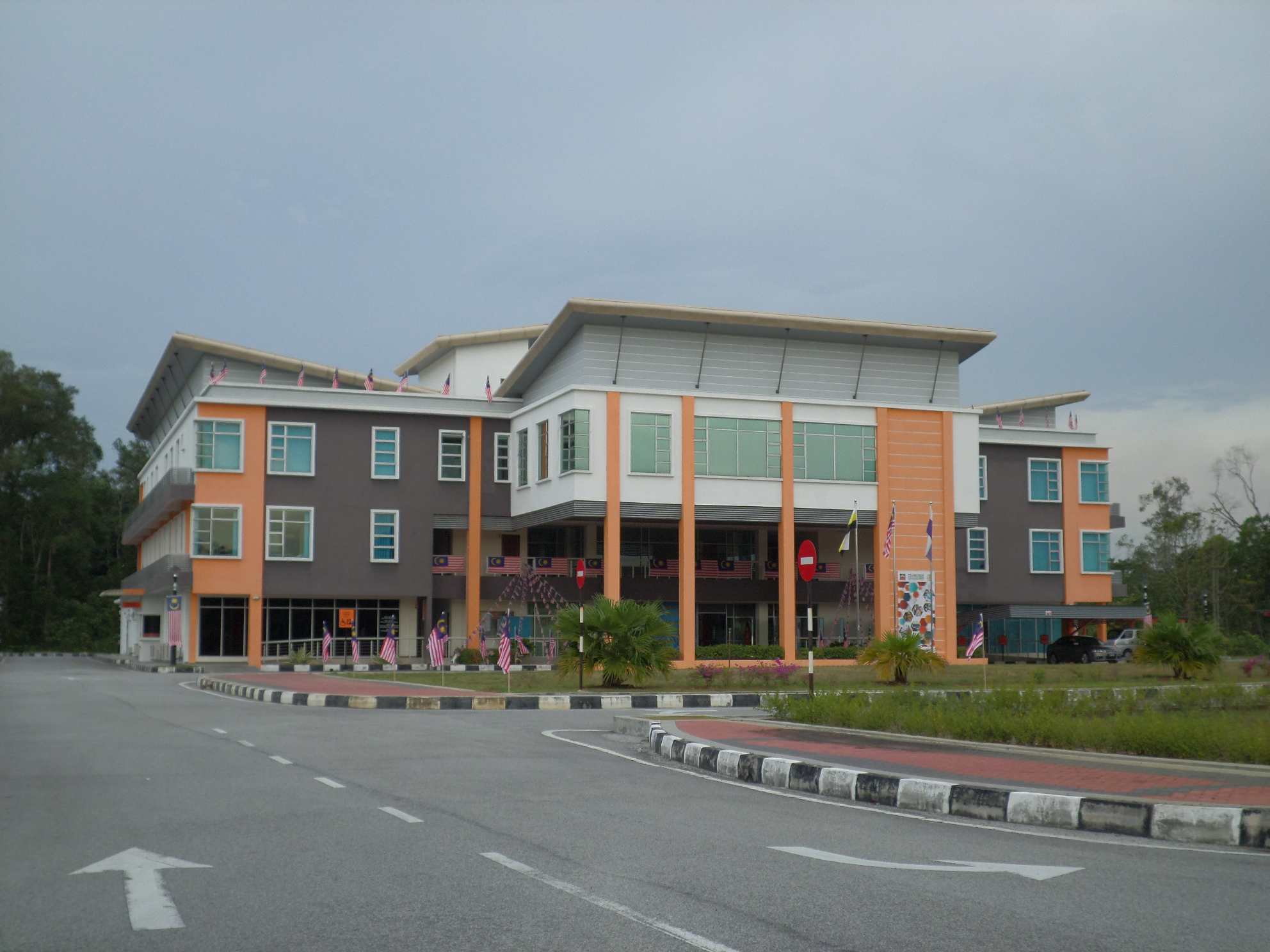 Perak Tengah District Council, Perak Tengah, Perak, Malaysia